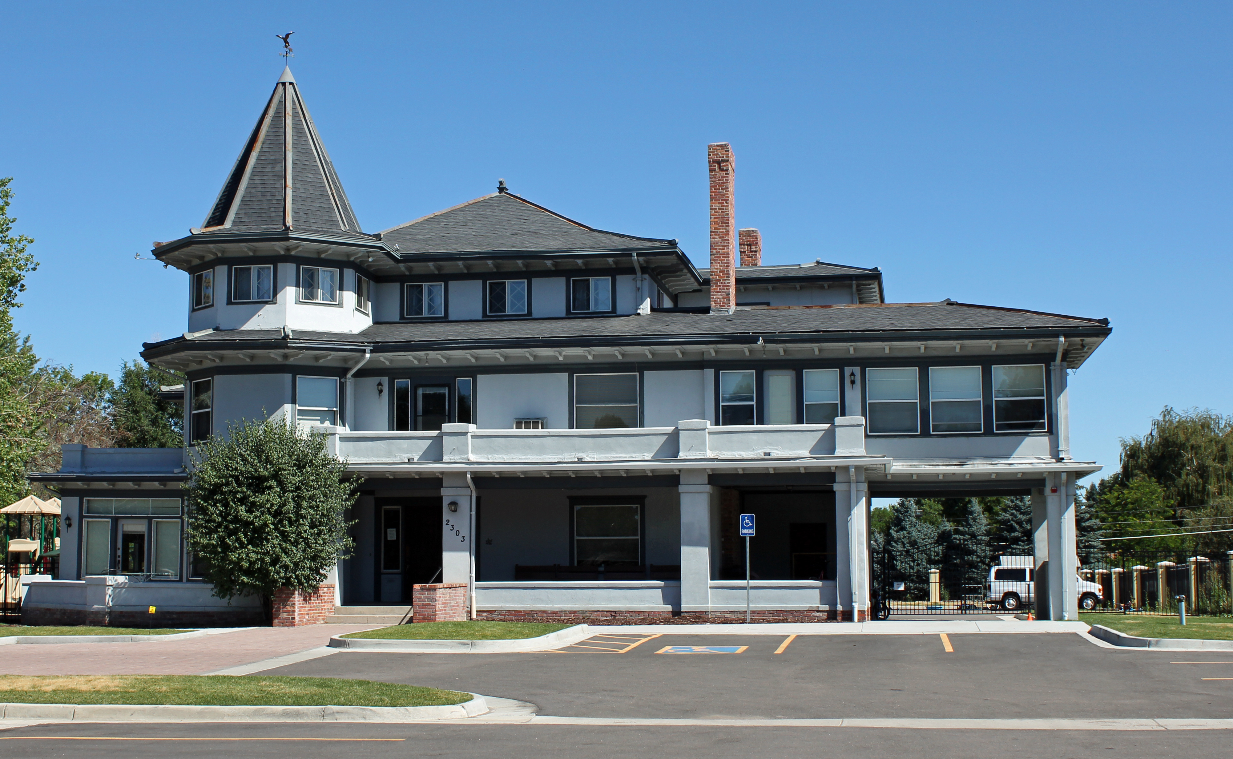 The David W. Brown House, located at 2303 East Dartmouth Avenue in Englewood, Colorado. The property is listed on the National Register of Historic Places.